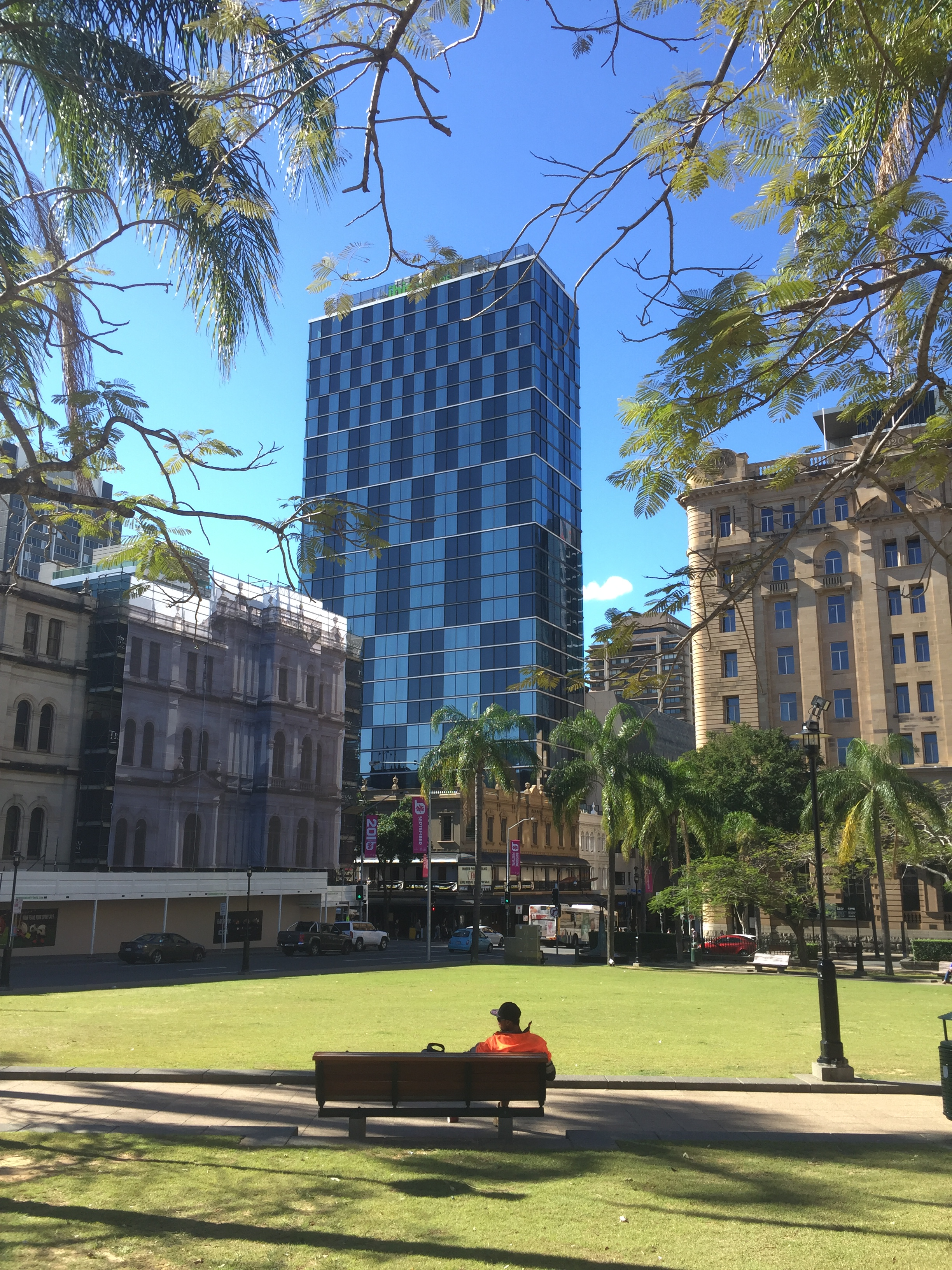 Queens Gardens and Ibis Styles Brisbane hotel in the middle August 2016